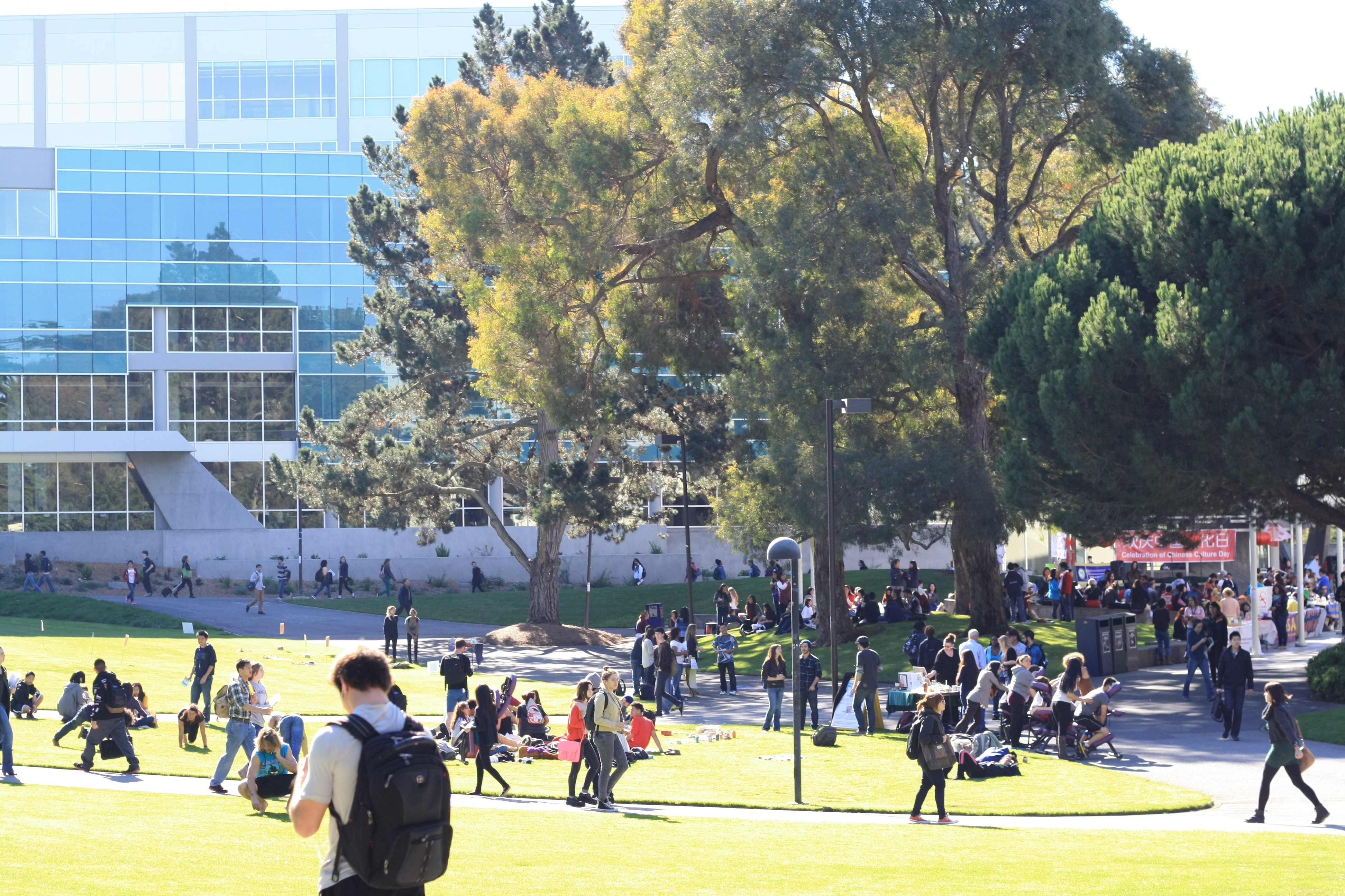 San Francisco State University - John Paul Leonard Library